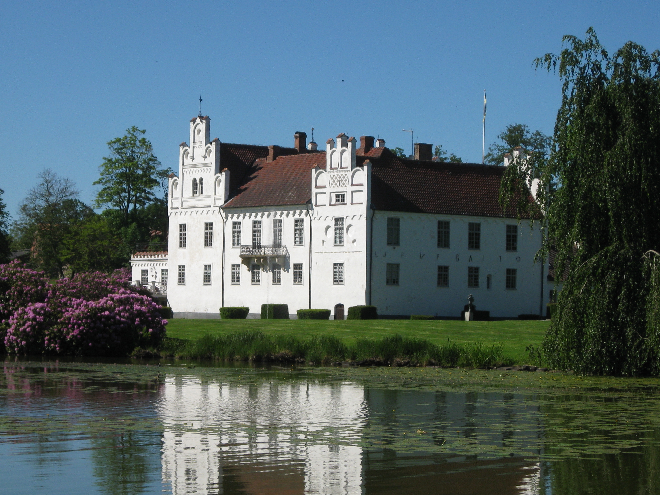 Wanås castle in Skåne, Sweden